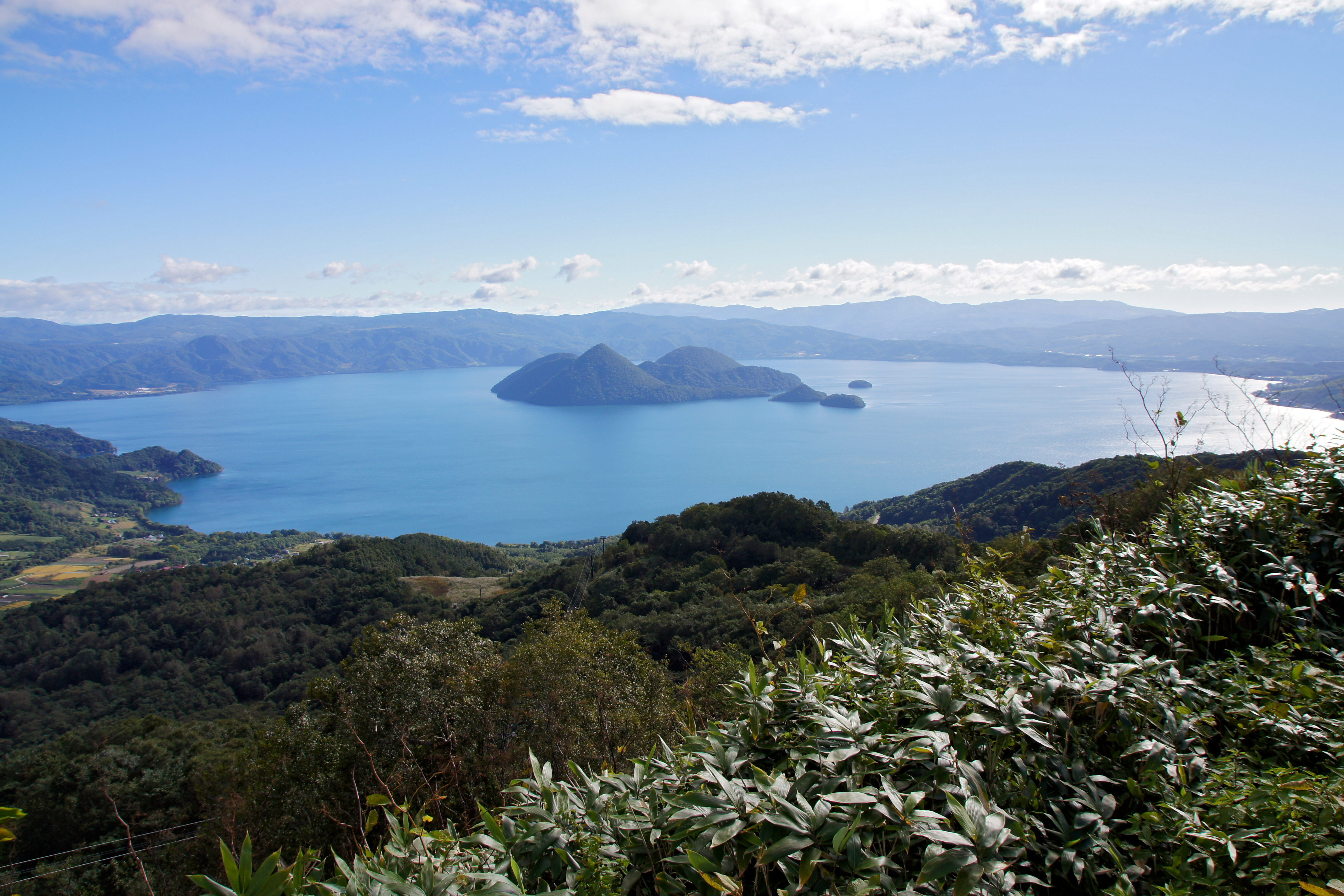 Lake Tōya view from The Windsor Hotel Toya Resort & Spa in Toyako, Hokkaido prefecture, Japan.